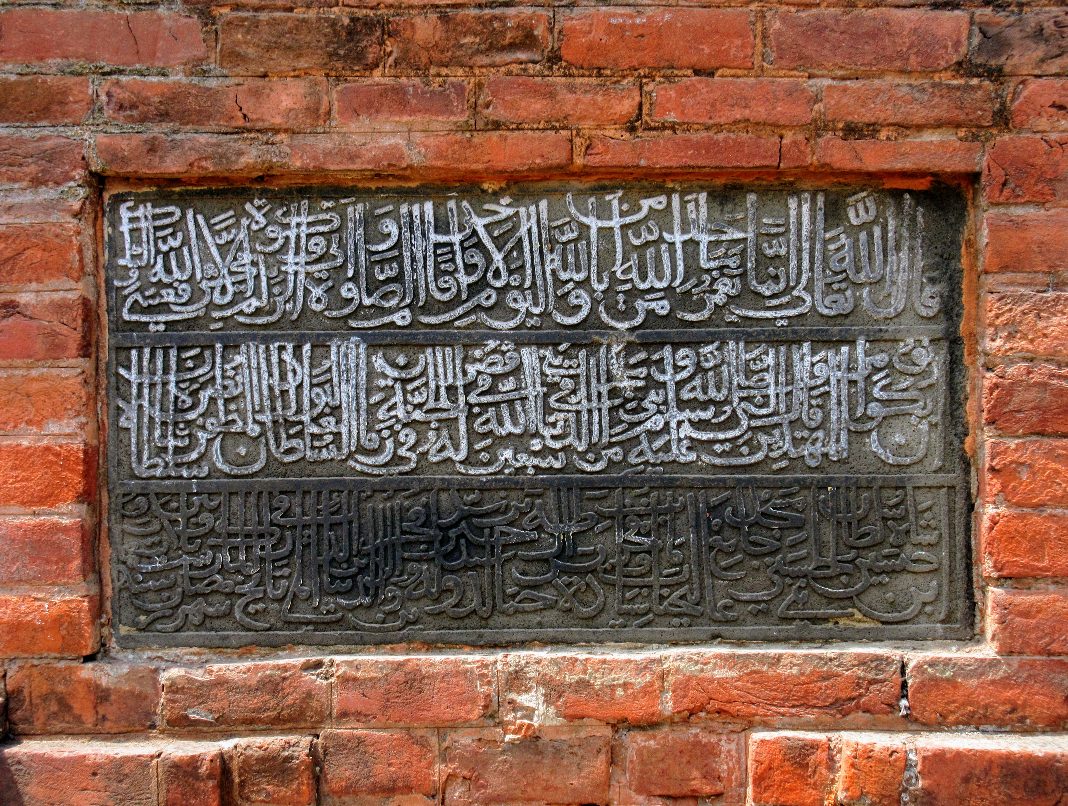 The stone foundation plaque states that the Mosque in Saptagram (সপ্তগ্রাম) was constructed by Syed Jamaluddin, the son of Abul Syed Fakuruddin of Amul during the Ramzan month circa 936 Hizira (1529 AD).